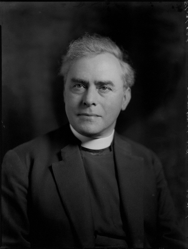 by Bassano, whole-plate glass negative, 9 December 1935